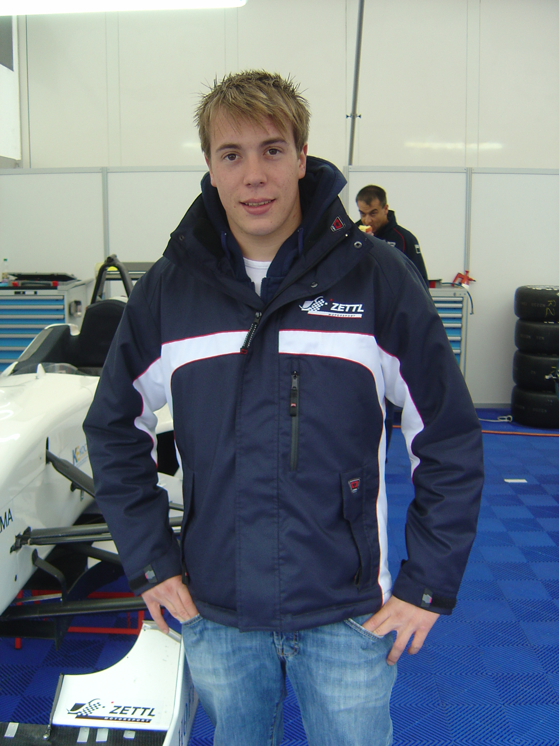 Nico Monien: the photo was taken during 2009's ADAC GT Masters race weekend at Hockenheim